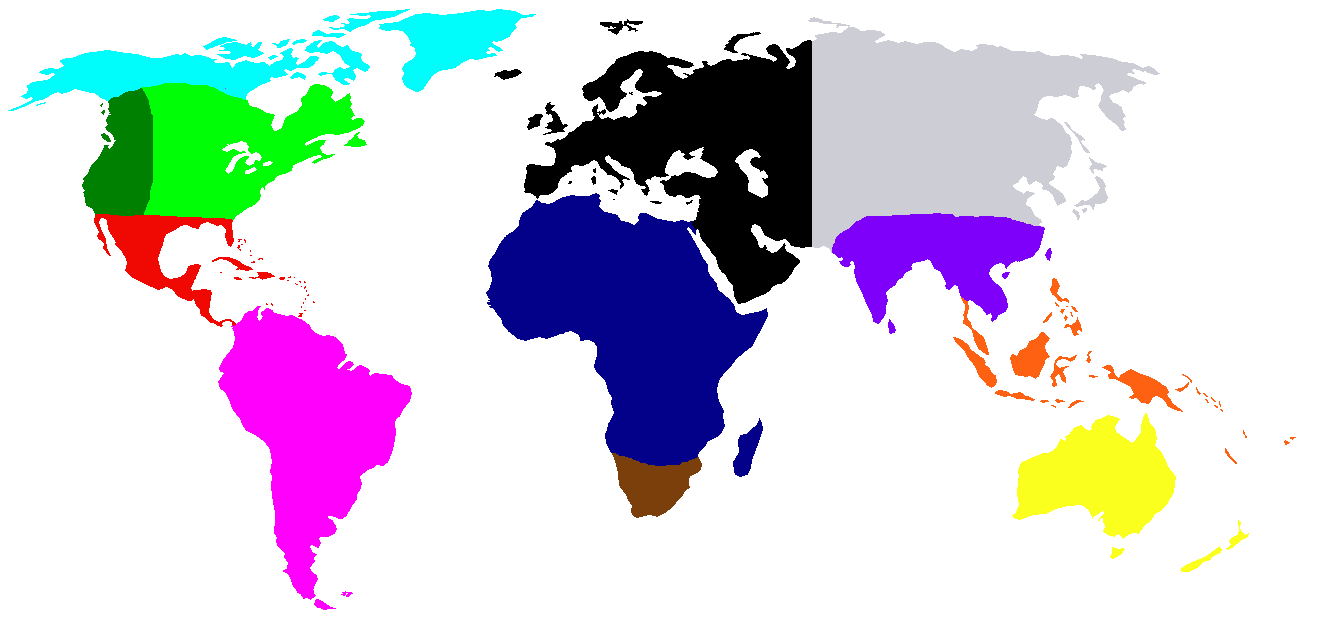 A map of the racial definitions of the historical race scientist Louis Agassiz